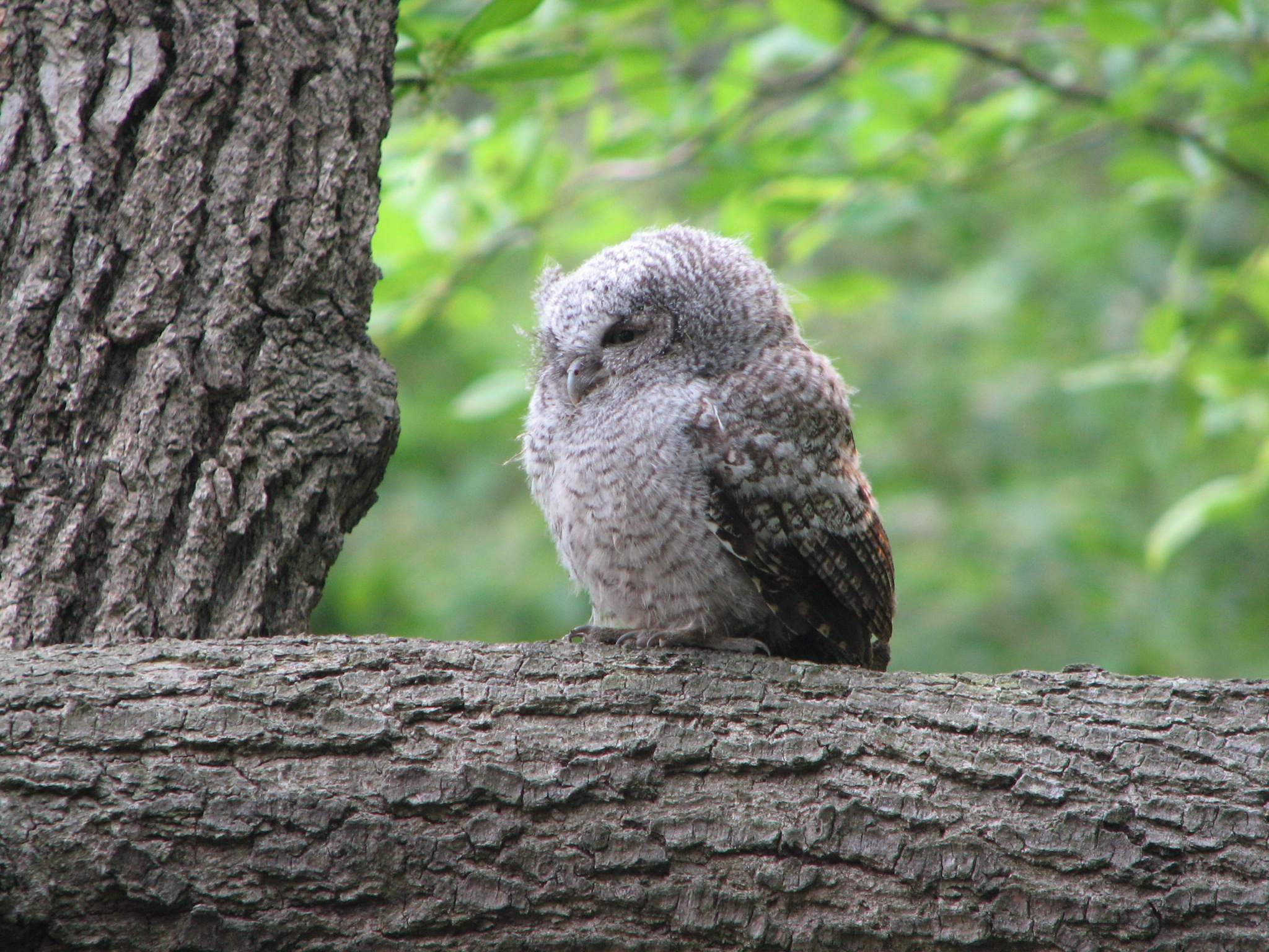 Megascops asio newly fledged owlet, Maryland east shore, USA.